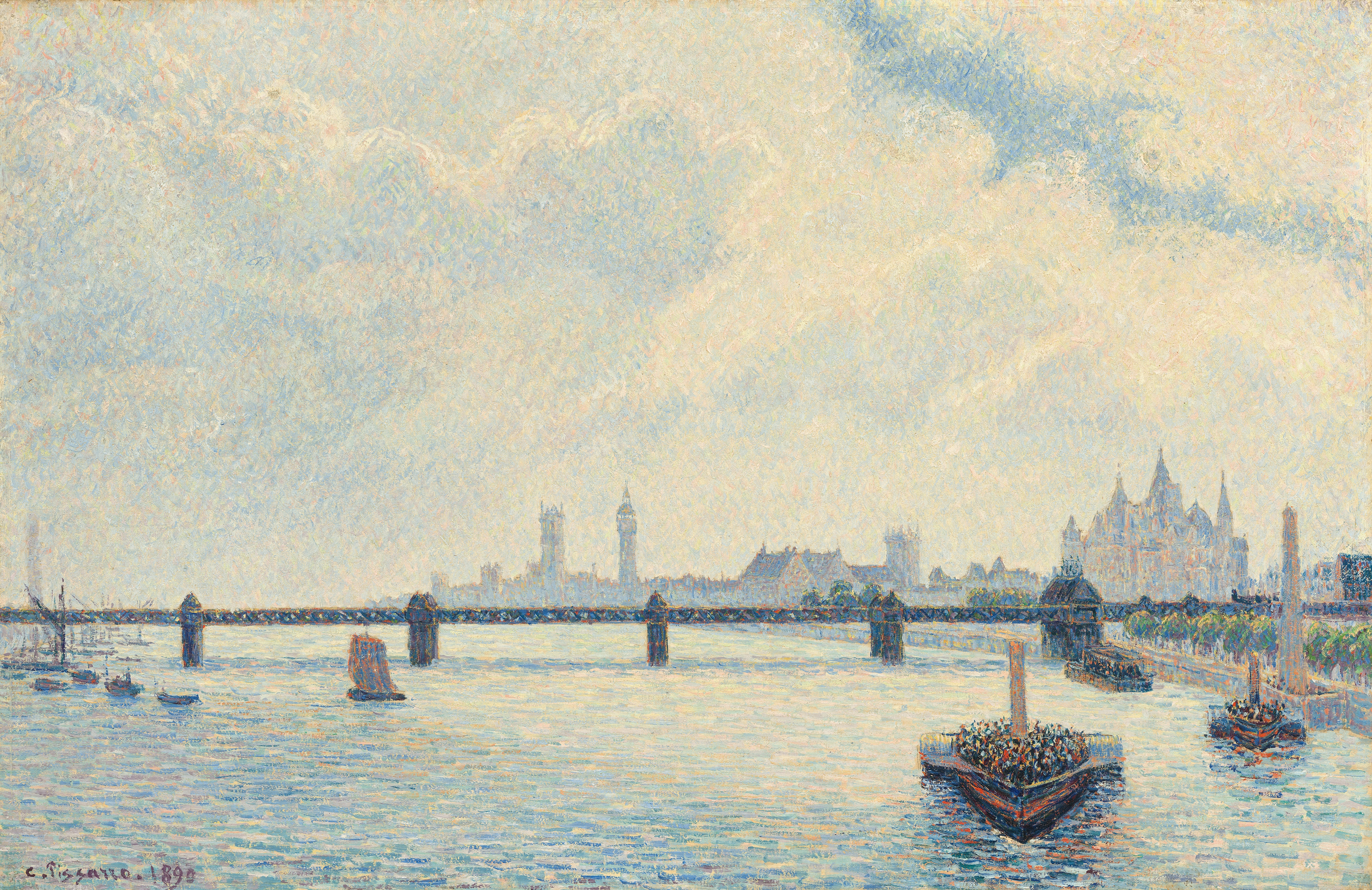 Camille Pissarro, Charing Cross Bridge, London, French, 1830 - 1903, 1890, oil on canvas, Collection of Mr. and Mrs. Paul Mellon